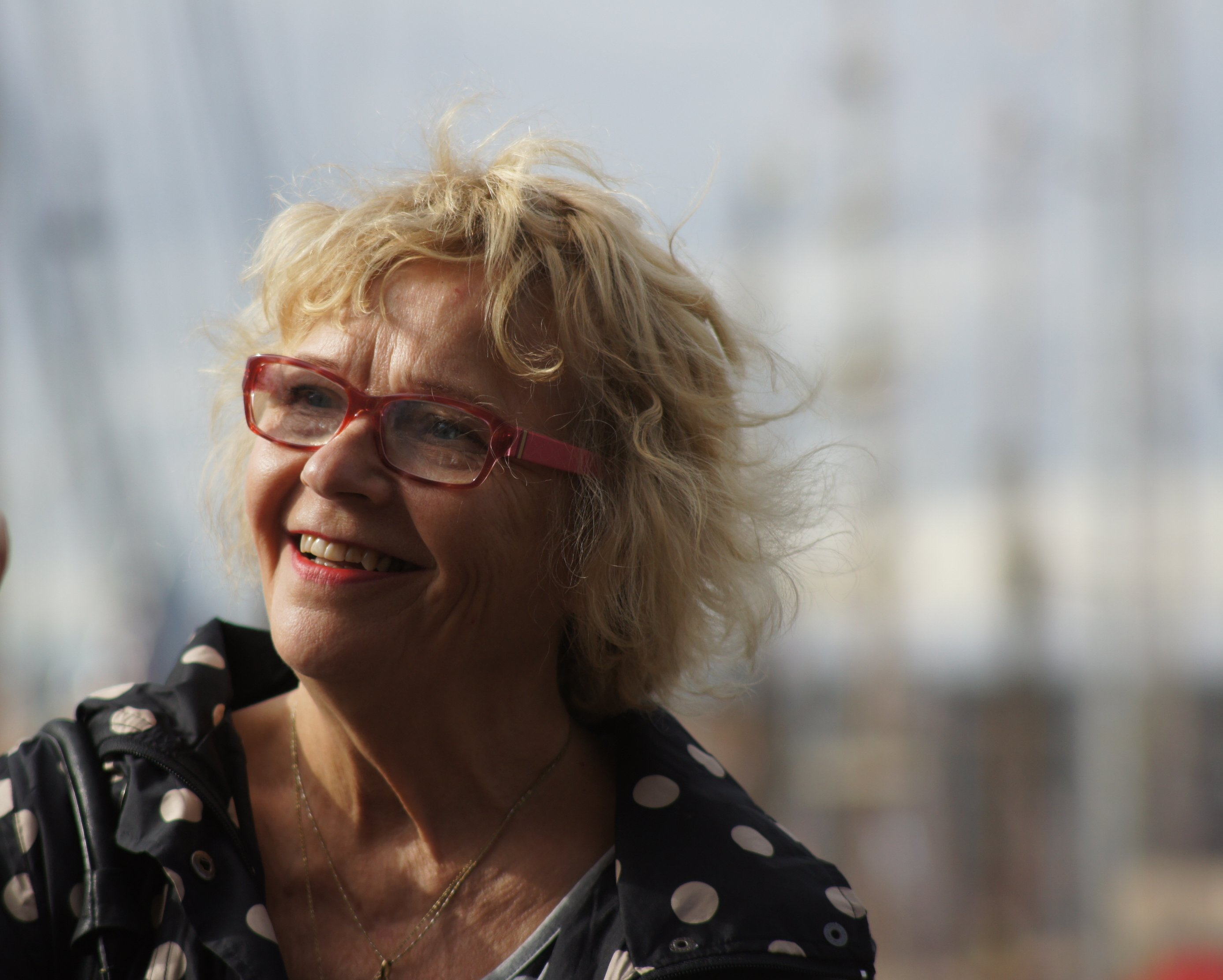 Ritva Siikala at the Hietalahti Shipyard in Helsinki during Tall Ships' Races 2013